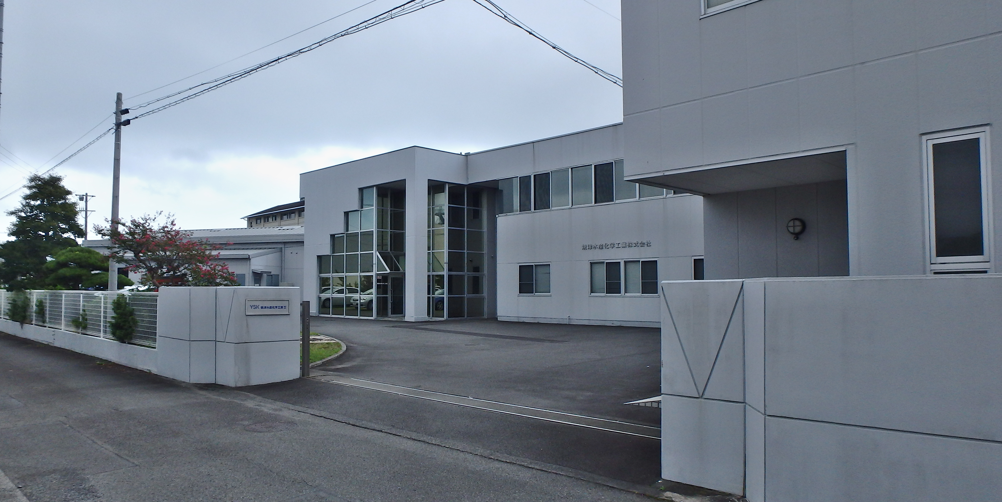 Headquarters of Yaizu Suisankagaku Industry Co., Ltd.,Shizuoka prefecture,Japan